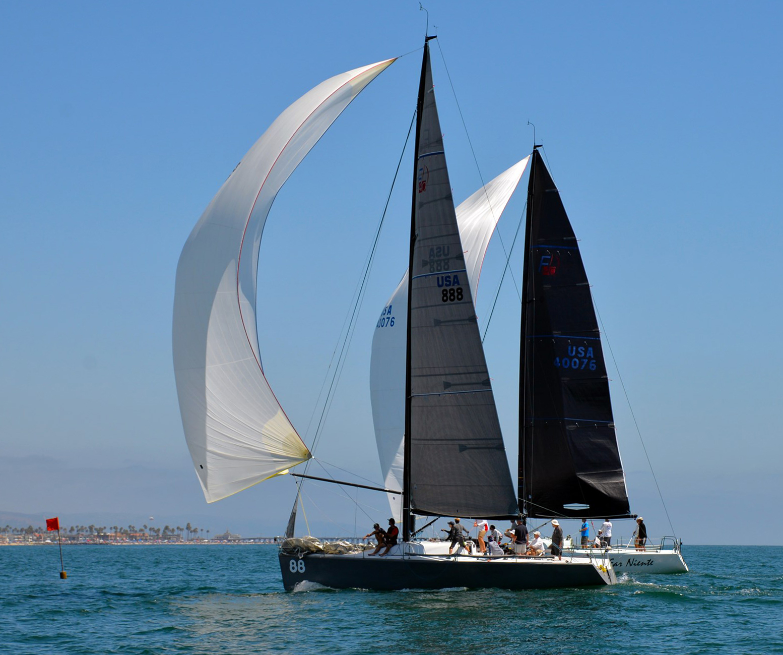 2 Farr 40's race to the the finish by Don Ramey Logan